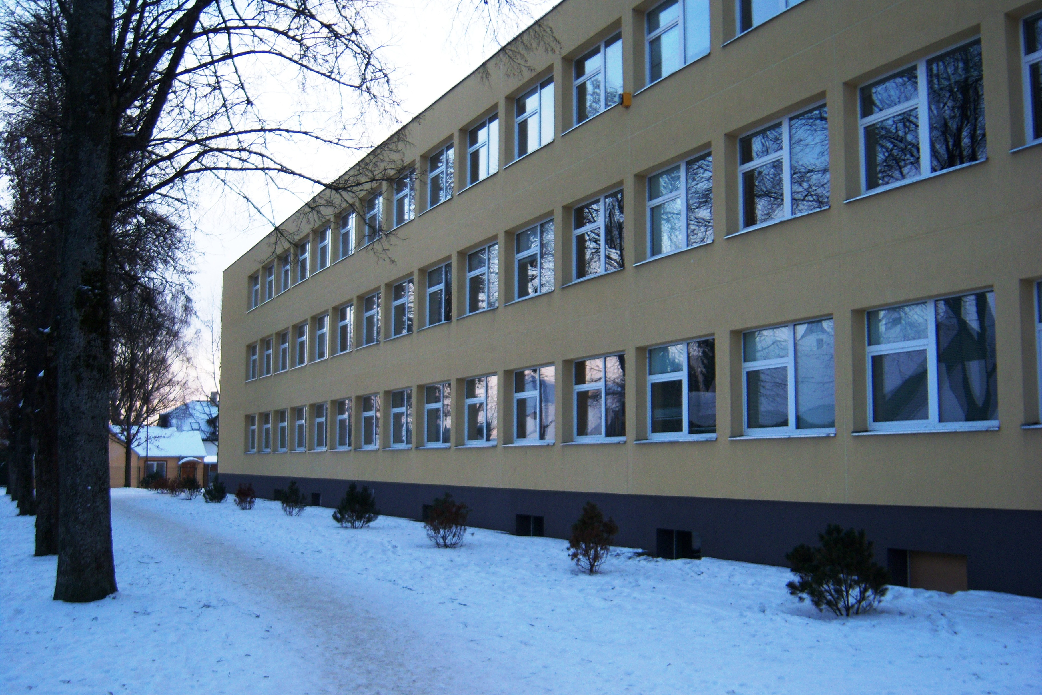 Prienai Progymnasium „Ąžuolas“ School, Lithuania